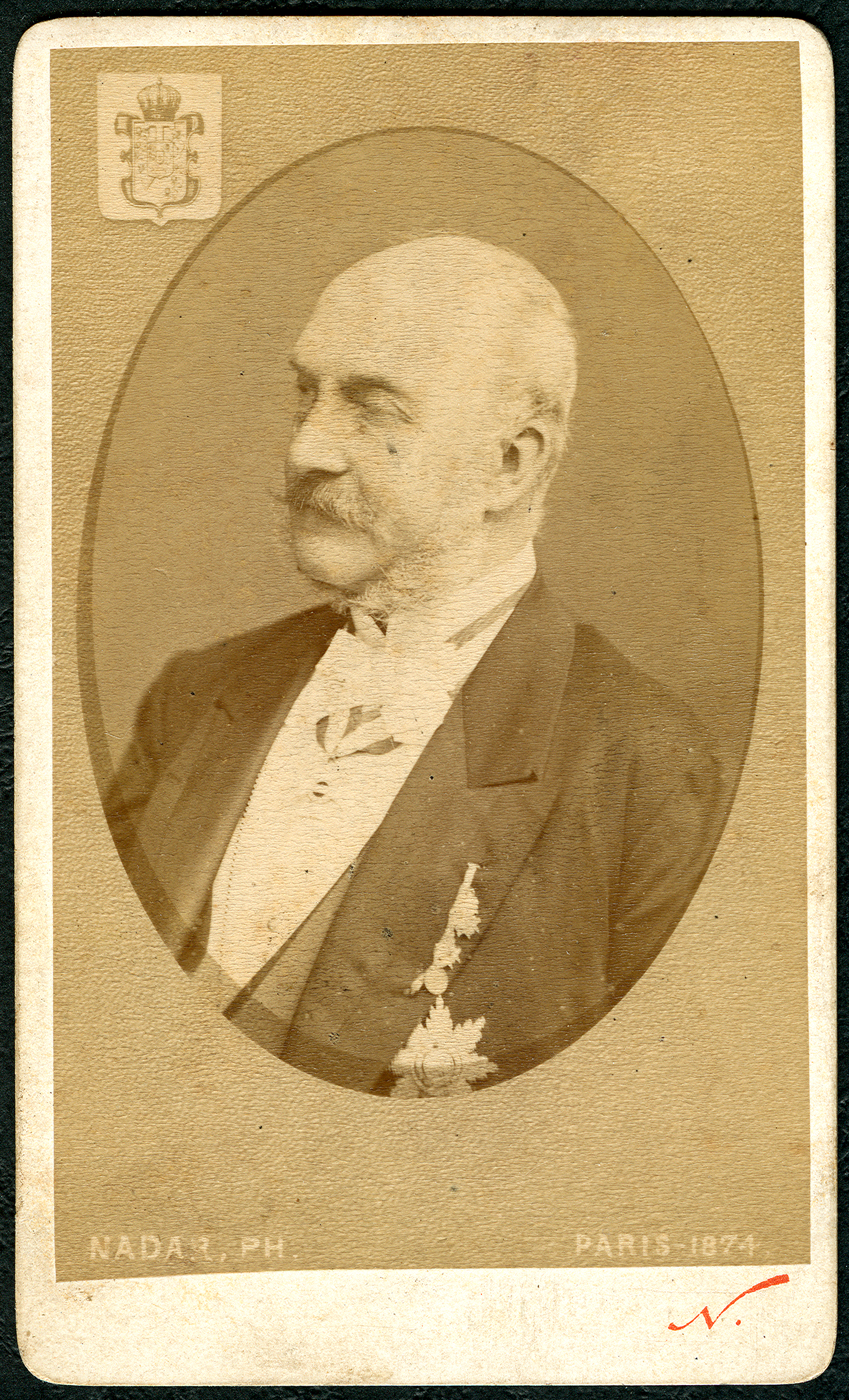 Calling card of George V, former King of Hanover made in 1874 by Nadar